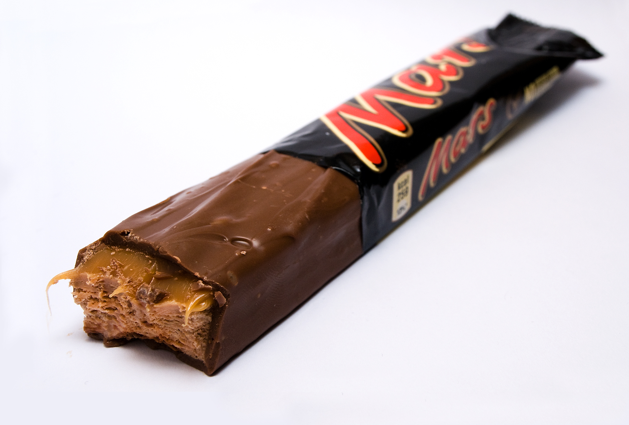 Photograph of a Mars bar.